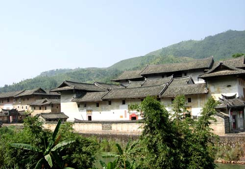 earth building fuyu lou